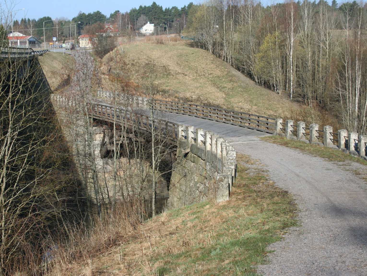 Halikko museum bridge, Halikko, Finland. Wopoden bridge completed in 1866.